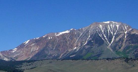 Mount Gibbs, California, USA